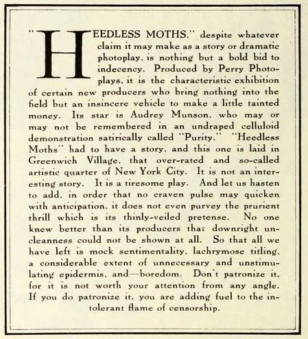 Editorial on page 64 of the September 1921 Photoplay magazine recommending that readers not see the American film Heedless Moths (1921), which featured scenes of actress Audrey Munson posing in the nude for an artist.